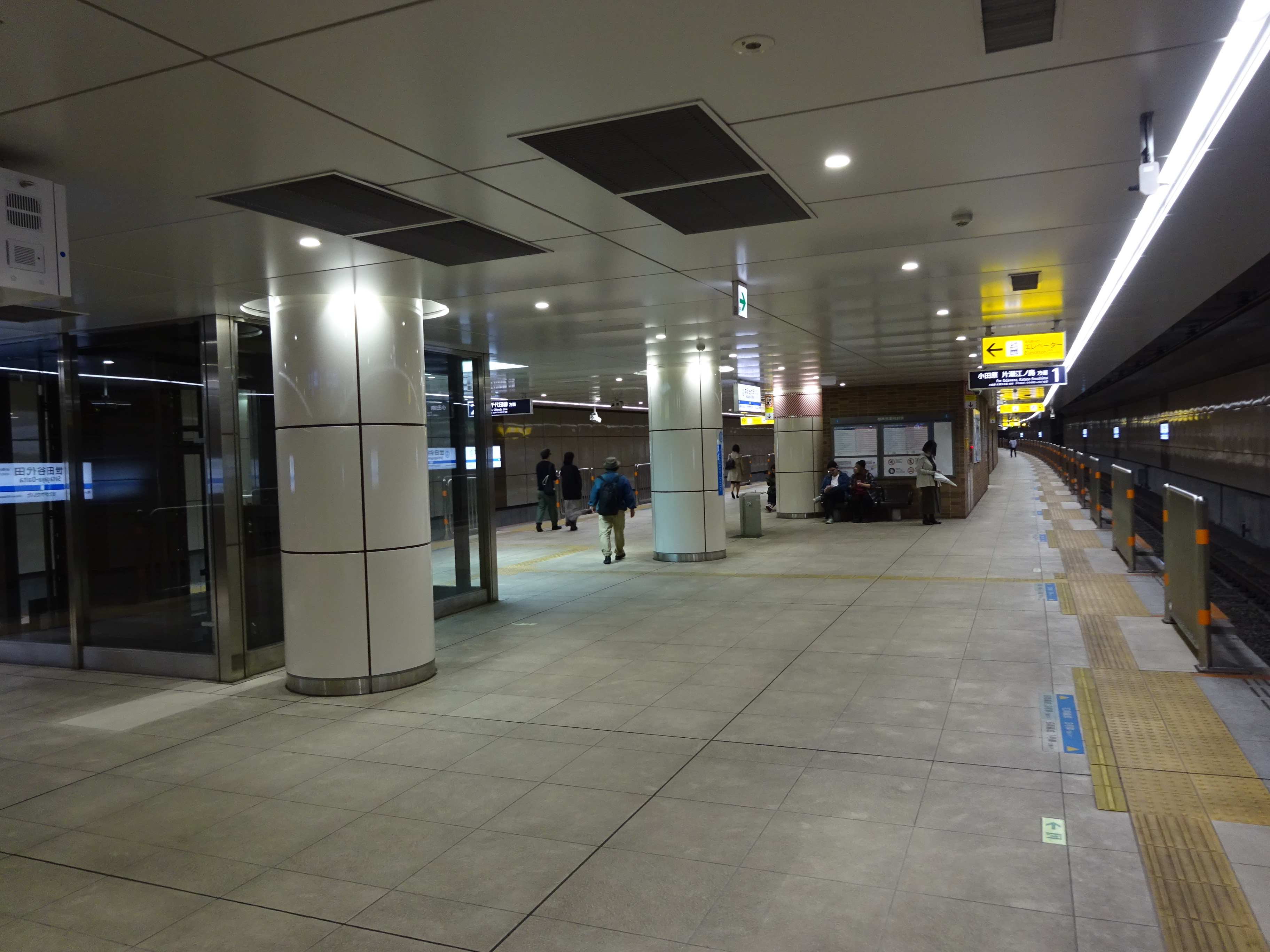 Platforms of Setagaya-Daita Station